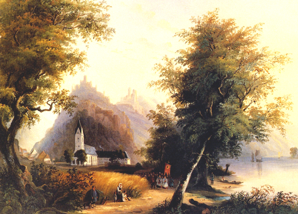 Oilpainting „Die feindlichen Brüder bei Bornhofen am Rhein mit Kloster und Dorfansicht“ by Karl Bodmer about 1830.